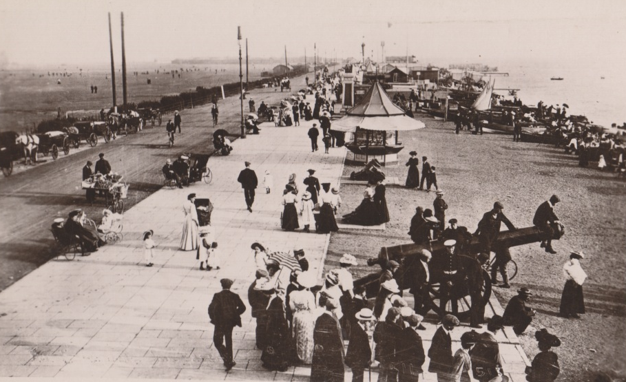 Postcard entitled "Southsea Front and Common", in "Kingsway Real Photo Series", numbered "S 8528"